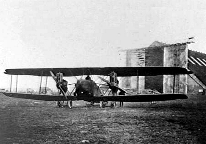 A AEG G.II bomber ready for handing over to the Allies at Fort Cognelee, Belgium, in November 1918.